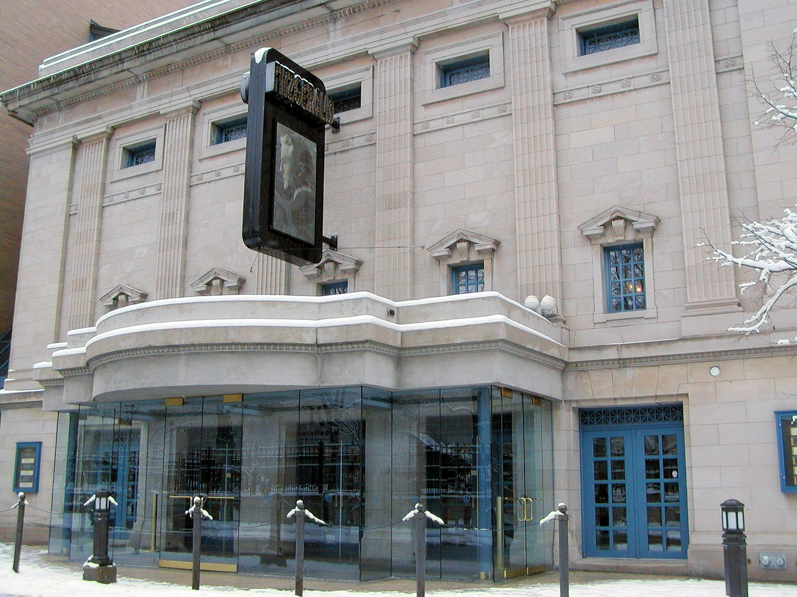 Fitzgerald Theatre, Saint Paul